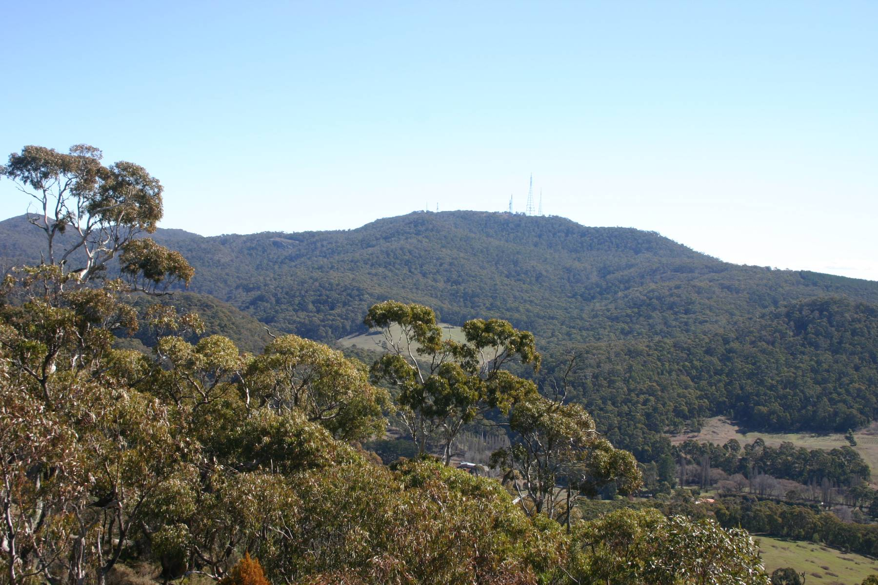 Photo of Mount Canobolas, from the Pinnacles. Photo taken August 2005 by Takver and released under the GNU FDL Mont Canobolas, en Nouvelle Galles du Sud en Australie